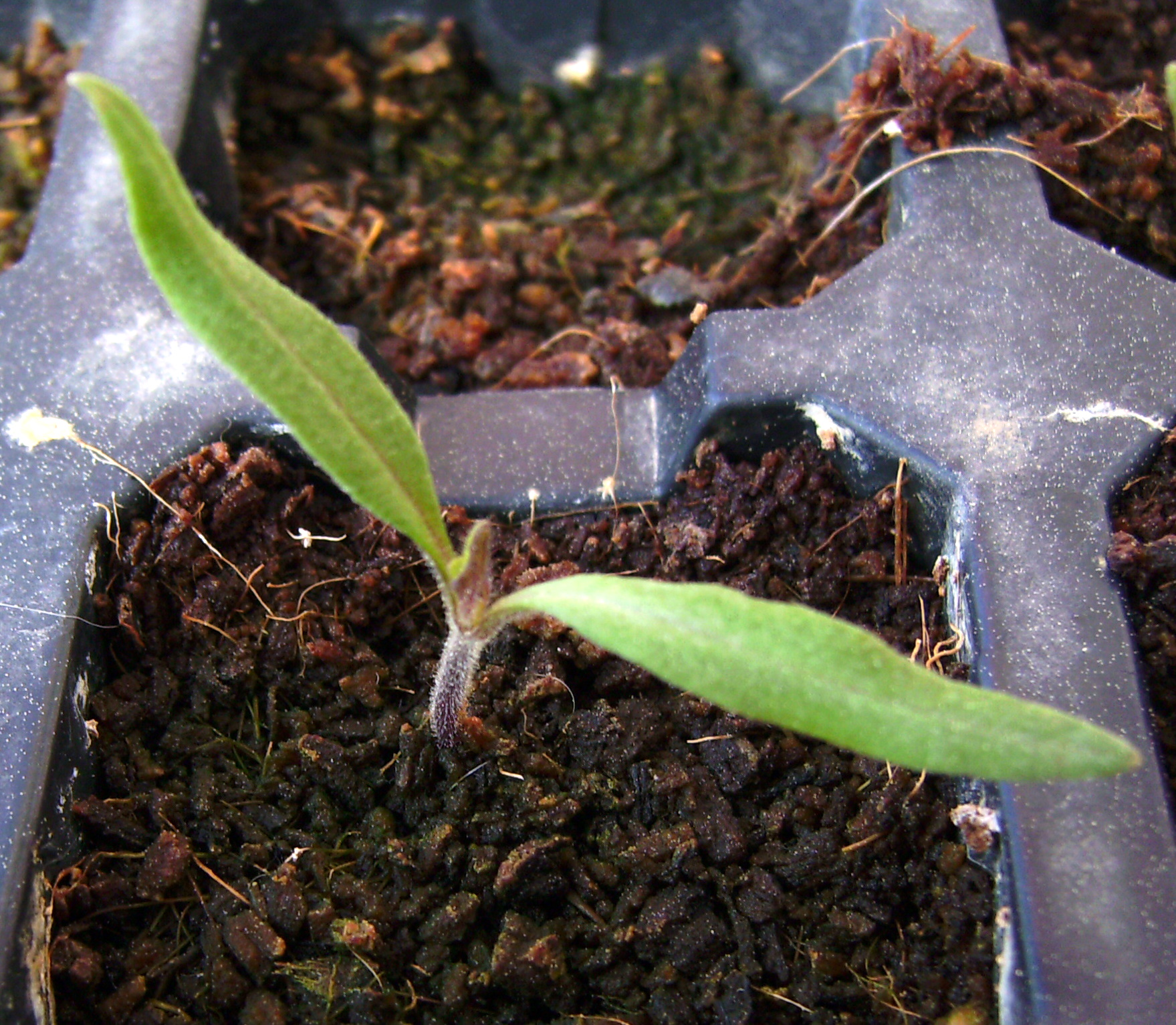 Cotyledons of a tomato plant, growing in Barcelona